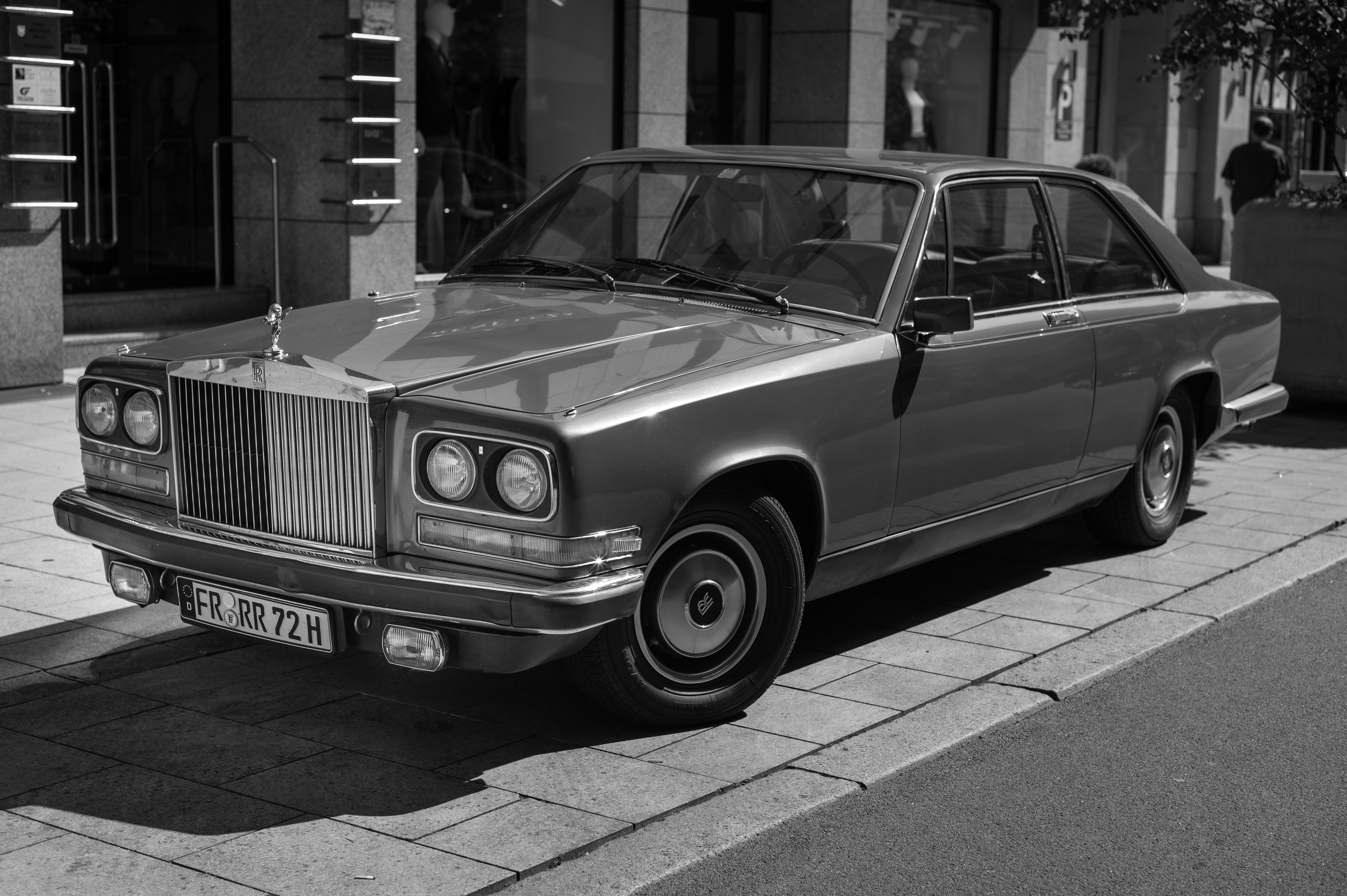 Rolls-Royce Camargue, seen in Hannover, Germany. (Registered Freiburg im Breisgau)